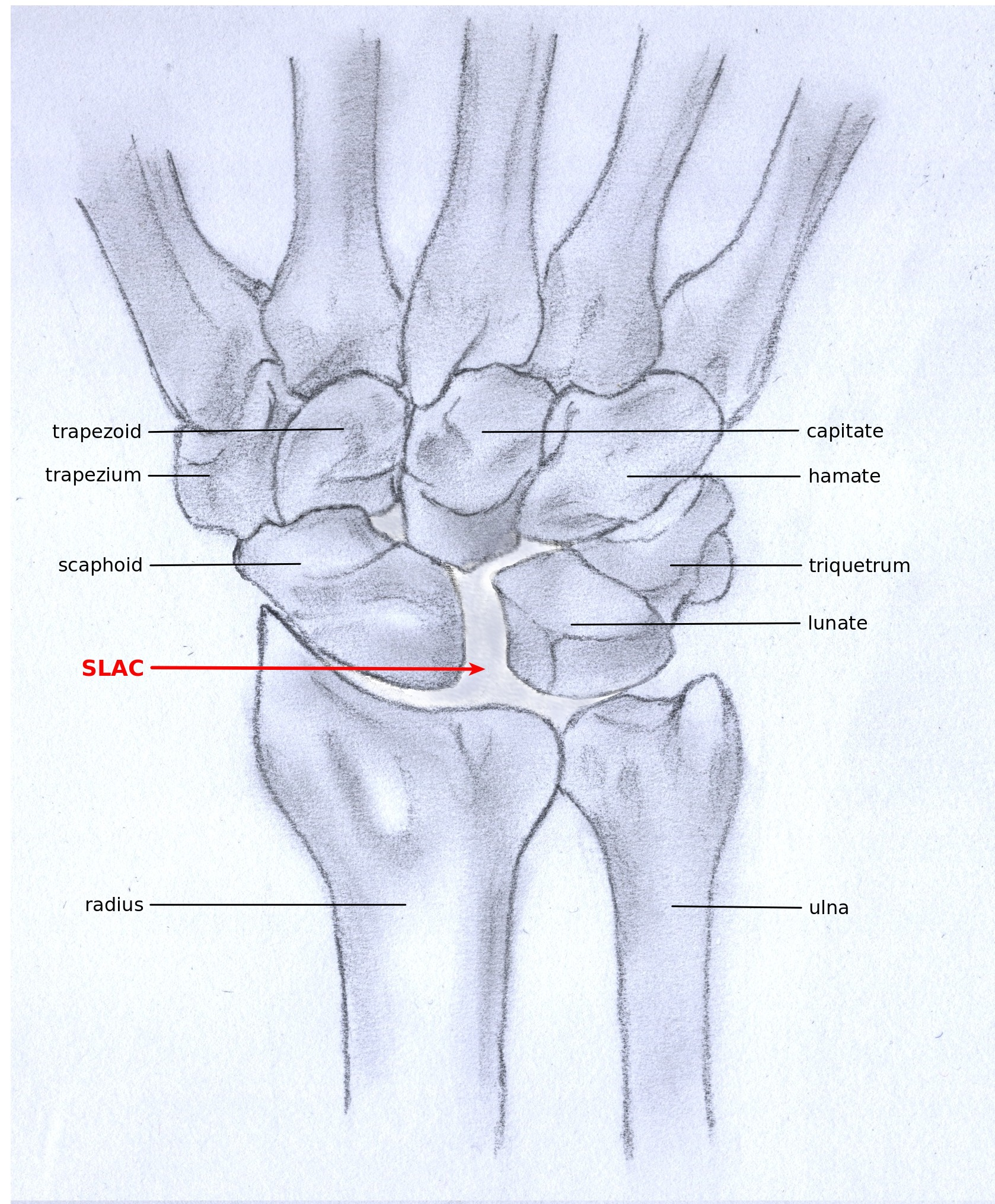 SLAC (Scapho-Lunate Advanced Collapse)